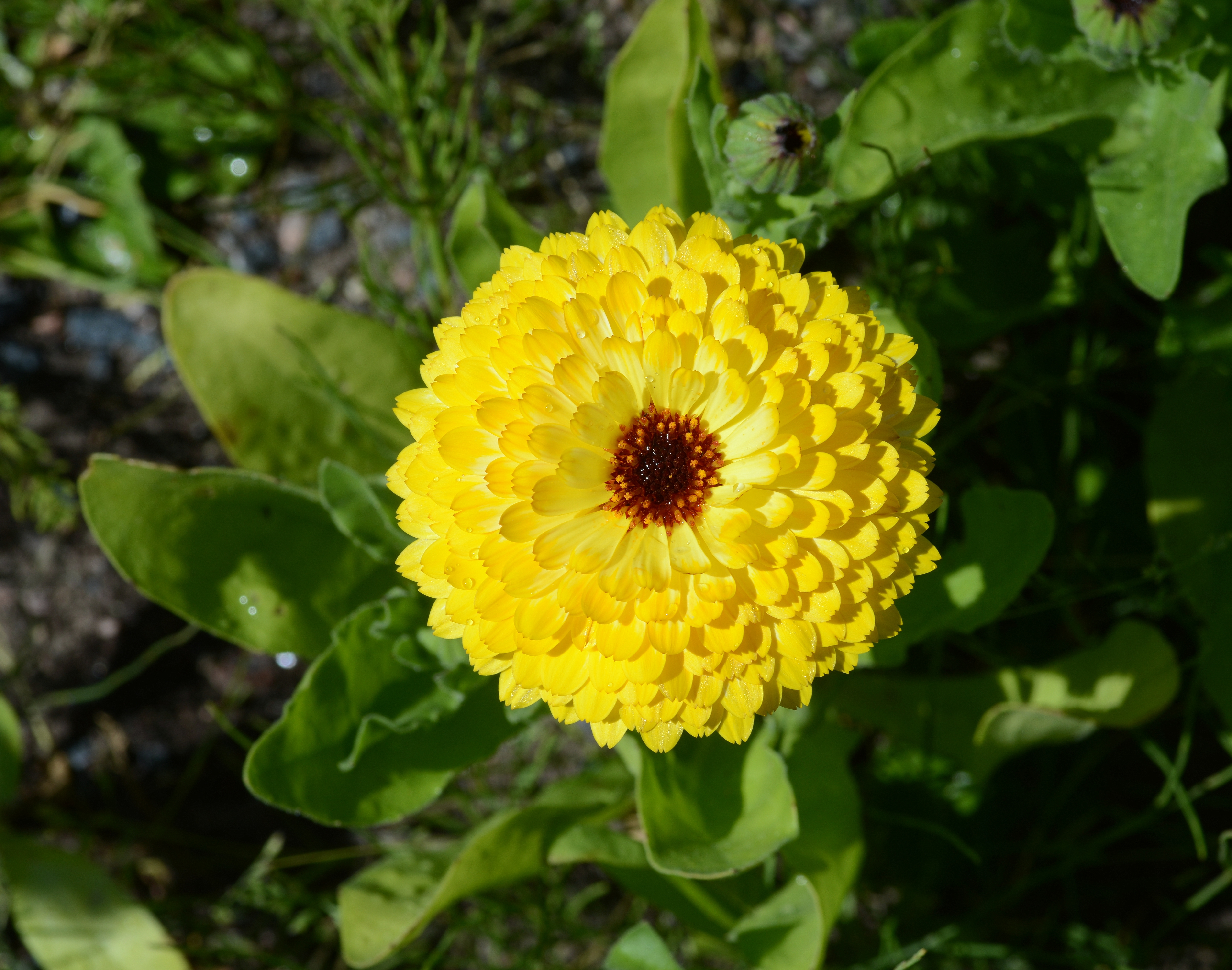 A Common Marigold cultivar (Calendula officinalis) at the Helsinki Botanical Garden